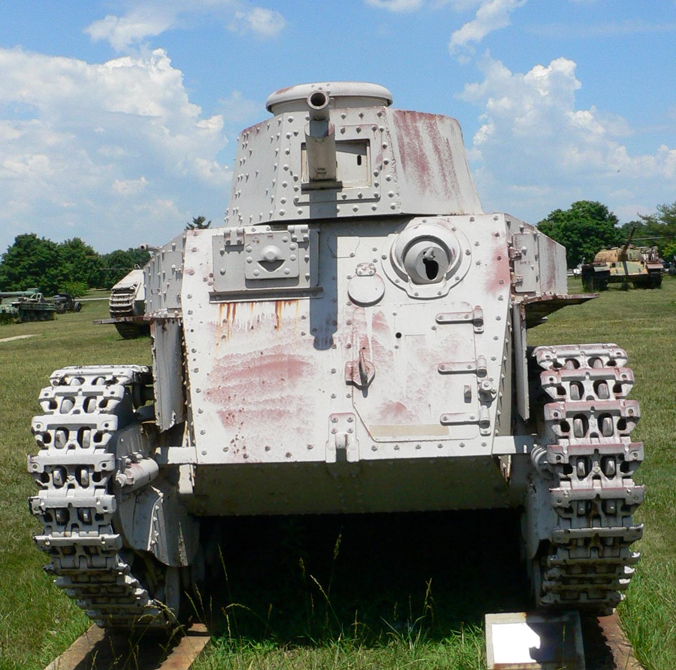 Picture taken by myself, Mark Pellegrini, at the United States Army Ordnance Museum (Aberdeen Proving Ground, MD) on June 12, 2007.